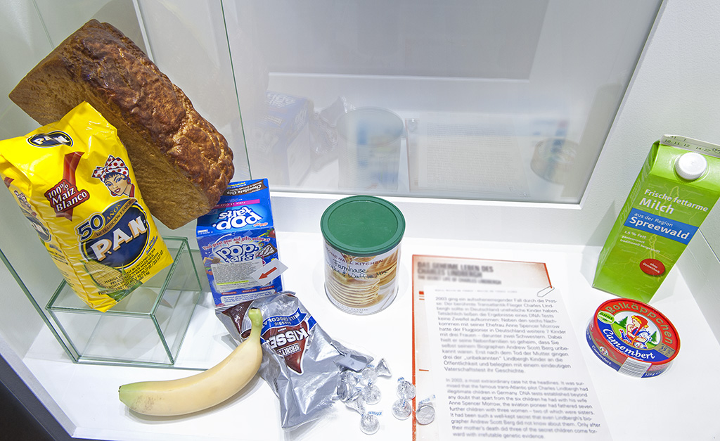 Berlin Museum of Natural History, "Developments – 60 Years Discovery of the Structure of DNA", genetically modified food